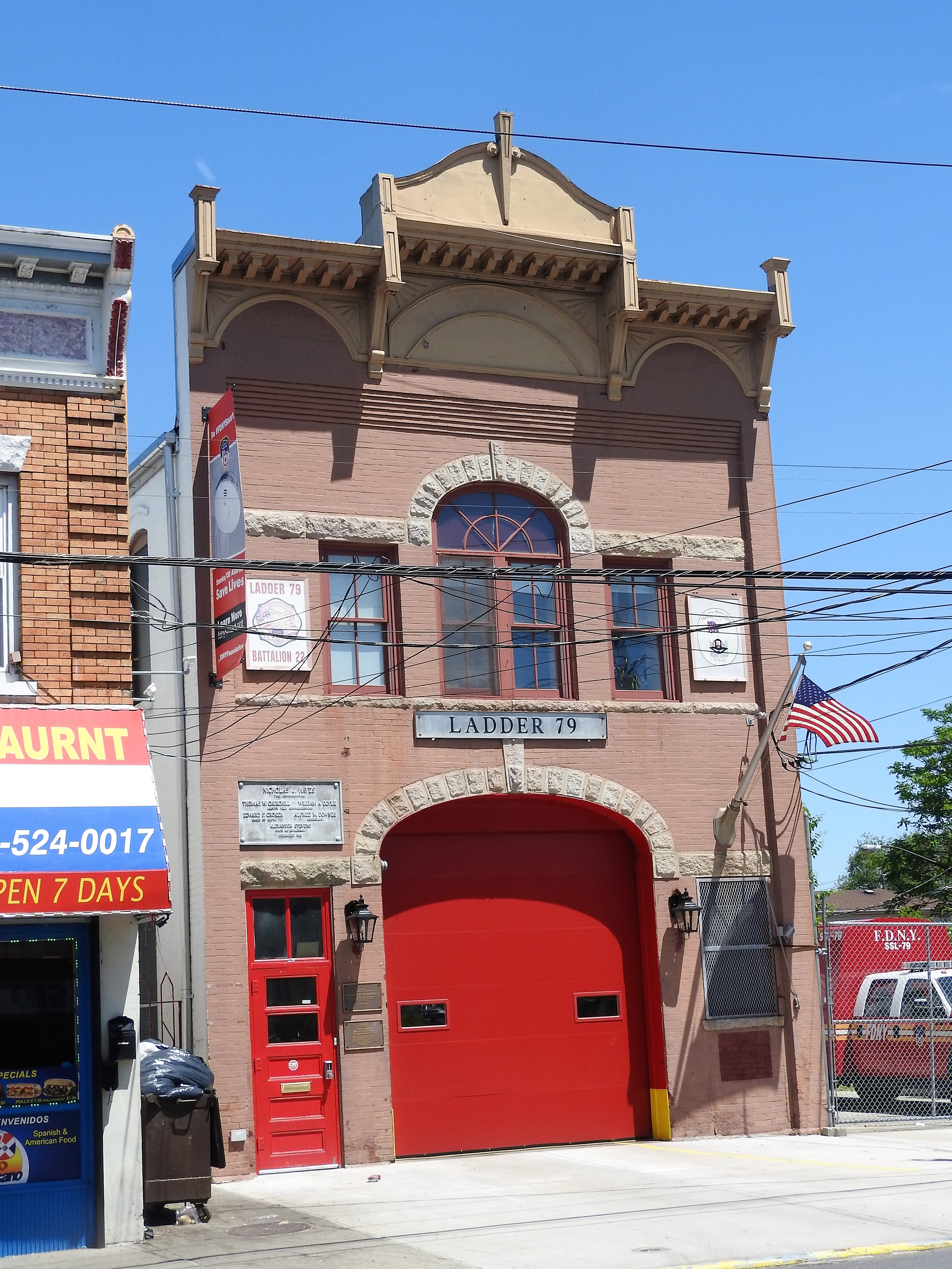 Looking north on a sunny late morning